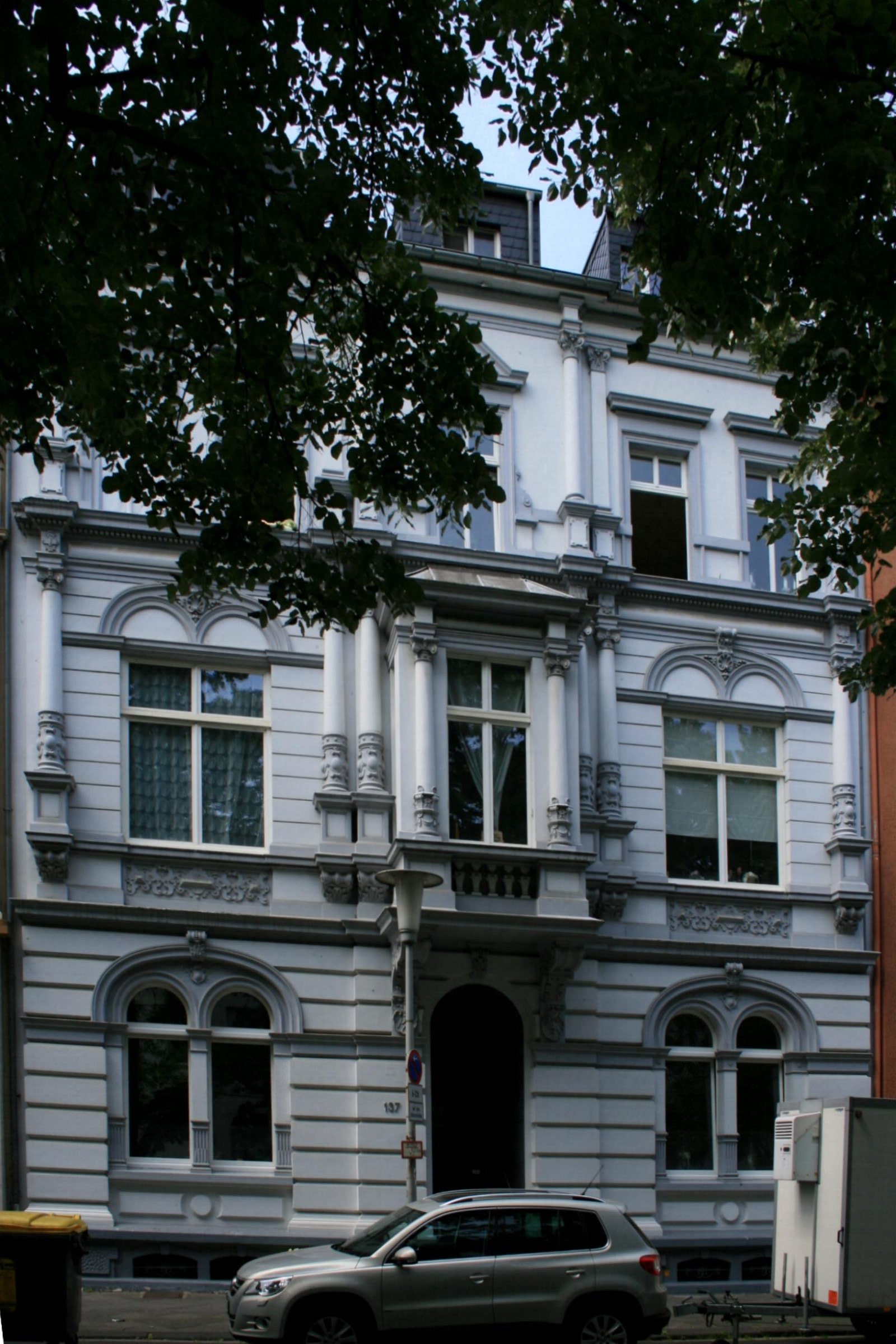 Cultural heritage monument No. B 094 in Mönchengladbach